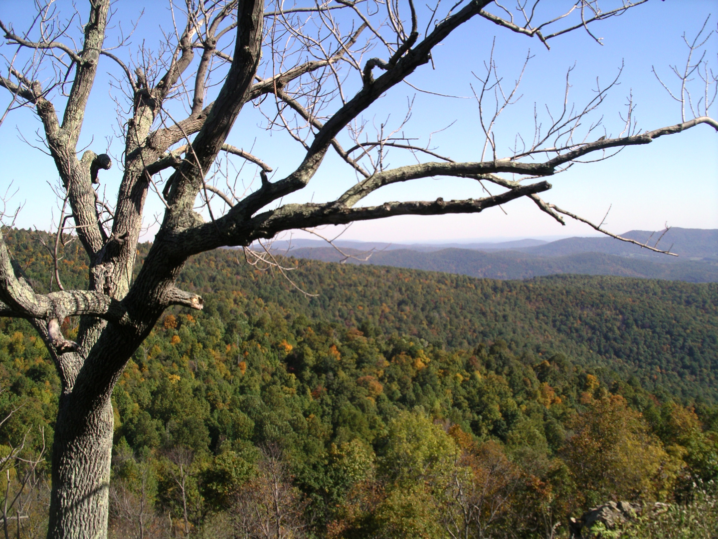 Trees in autumn along Skyline Drive